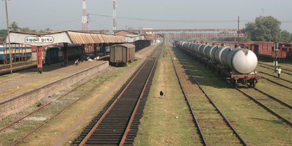 ঈশ্বরদী রেলওয়ে জংশন